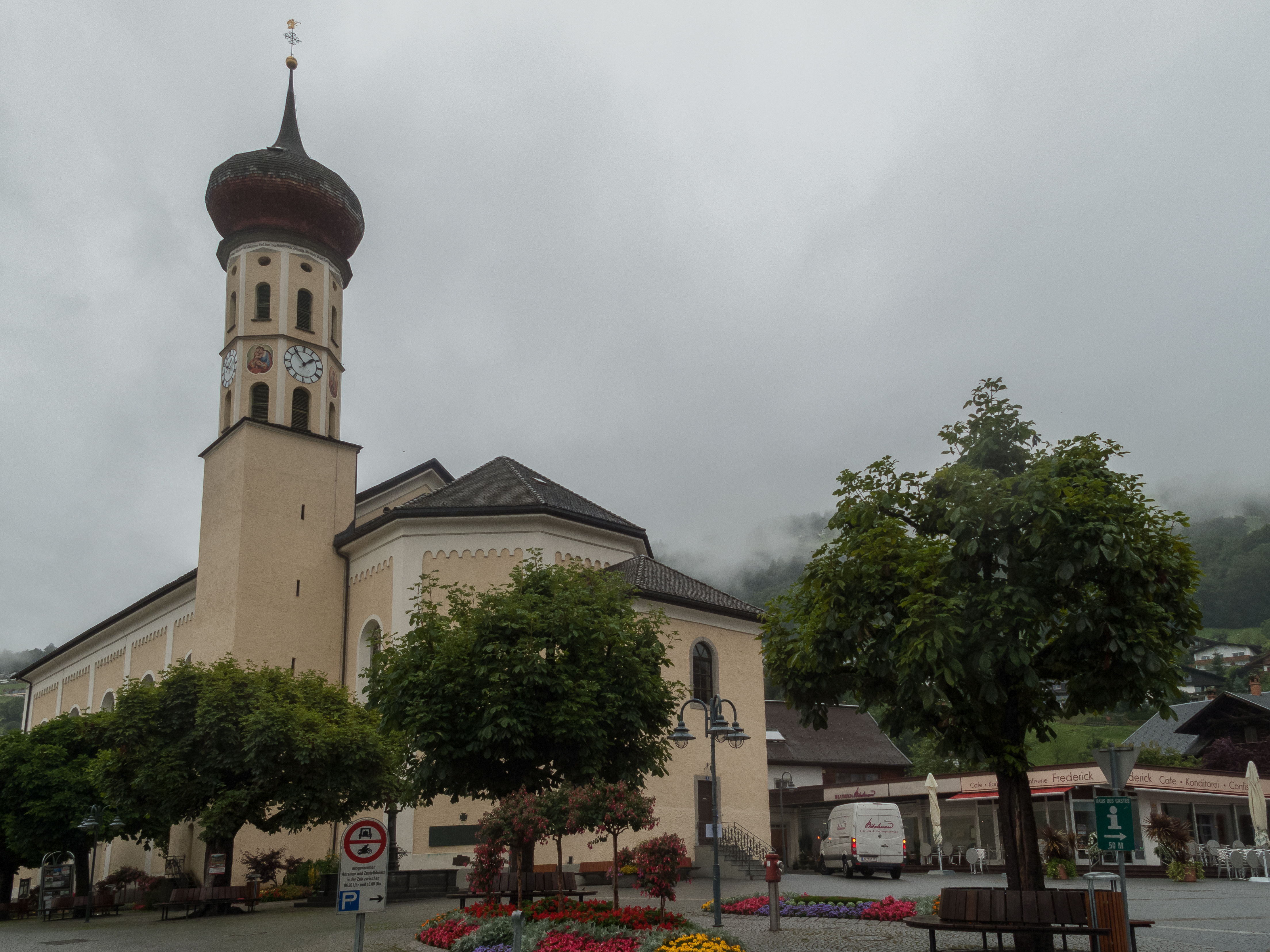 Schruns, church: katholische Pfarrkirche heilige Jodok